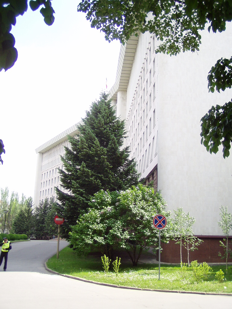 Moldovan Parlament Building, Chisinau